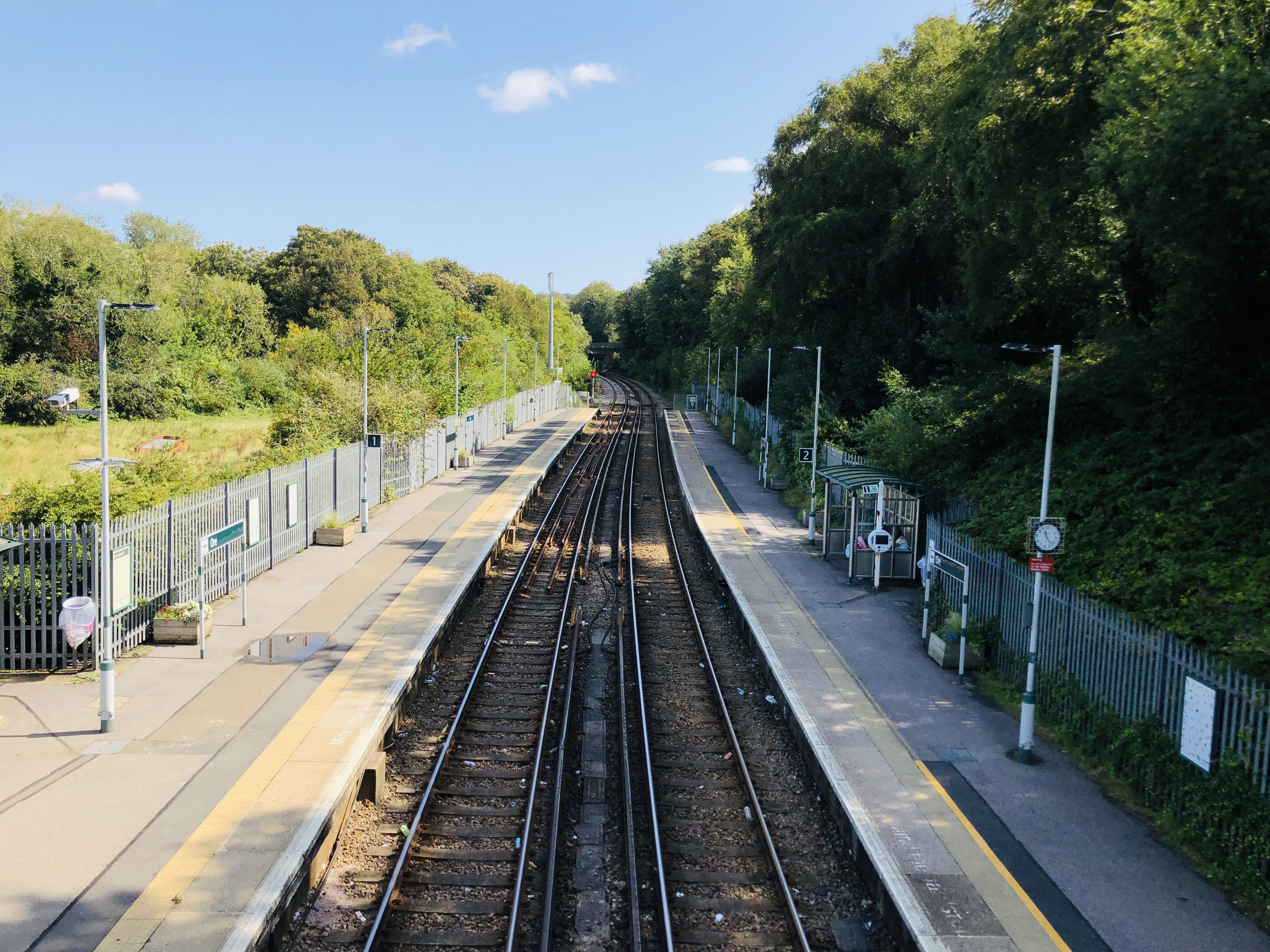 The platforms at Ore railway station, looking northeast towards Rye and Ashford. Picture taken from the footbridge.